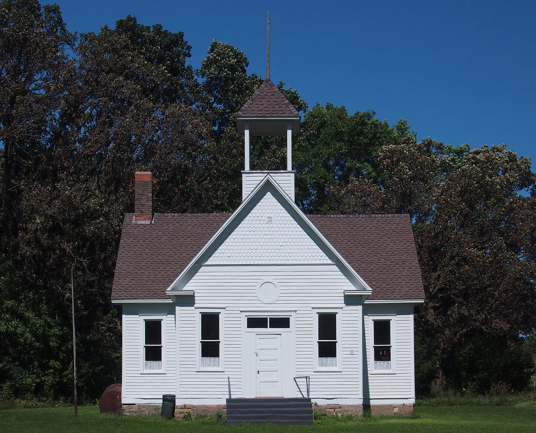 Chippewa Falls Town Hall (formerly the school), Terrace, Minnesota, USA. Viewed from the south. A contributing property to the Terrace Historic District.